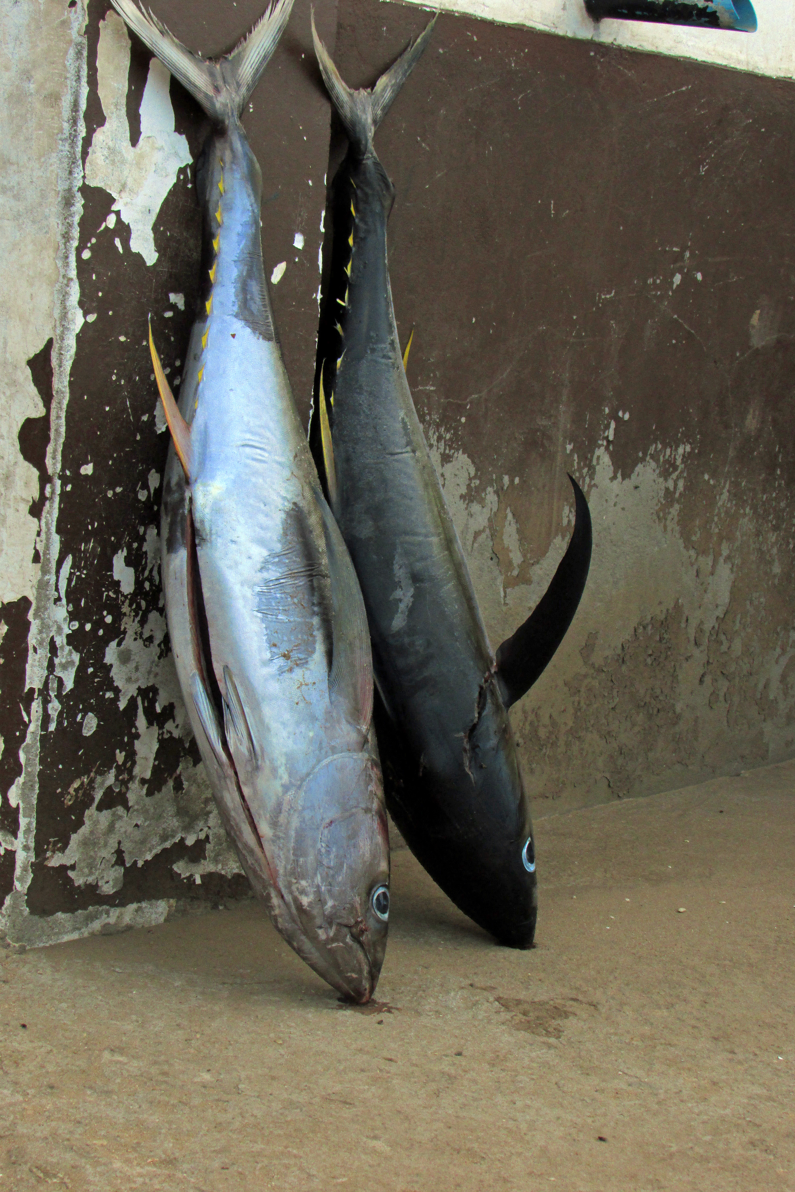 Two large tuna caught in Mtwara, Tanzania and sold at the fish market (Soko Samaki) by the Indian Ocean. This is an image of food from Tanzania